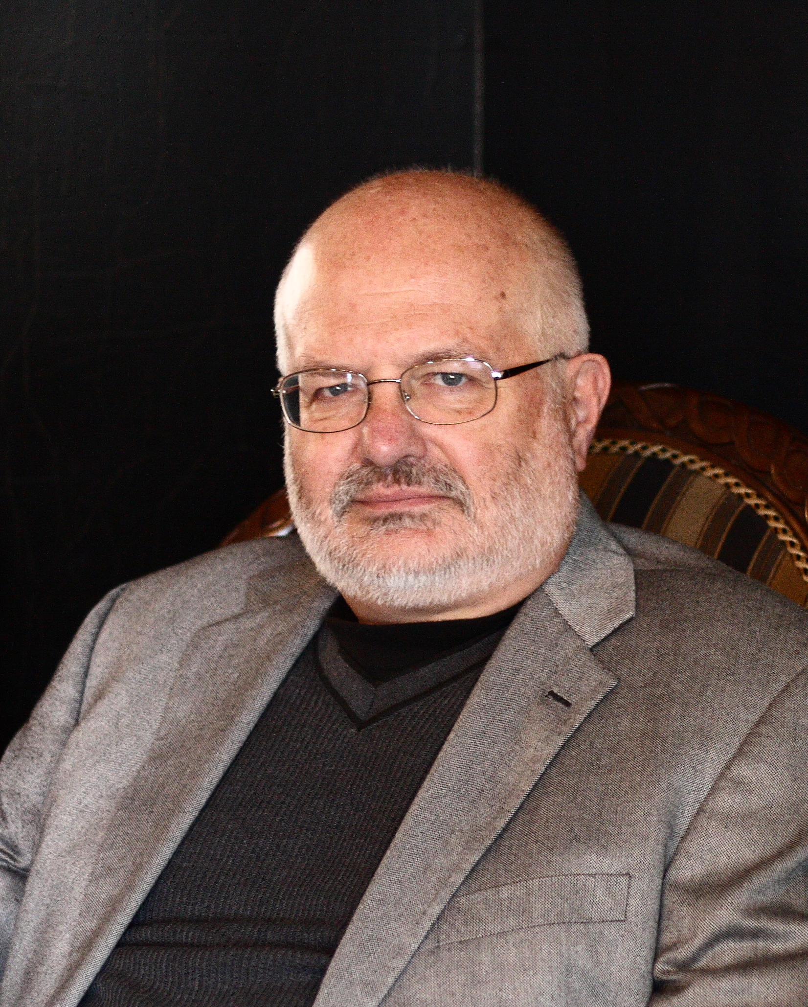 Historian of science and medicine Ronald Numbers, photographed at the 2008 History of Science Society conference